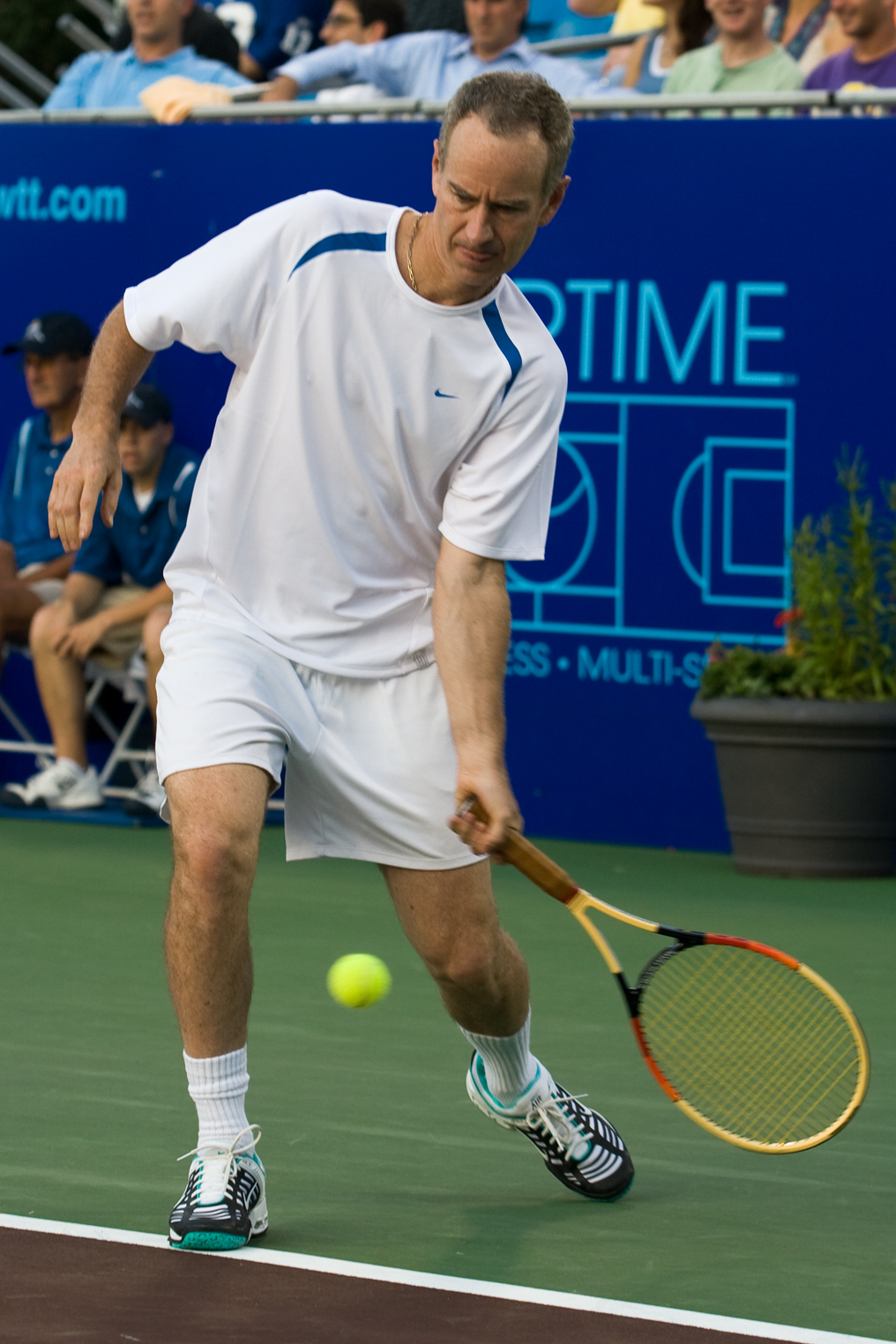 John McEnroe playing World Team Tennis in Mamaroneck, NY